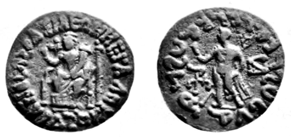 Whitehead Coins of the Punjab Museum Plate XI Azes Demeter and Hermes